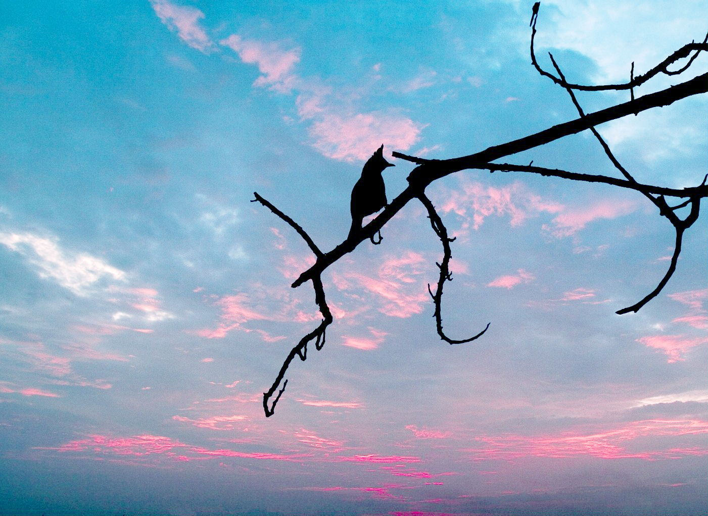 A bird singing on a branch at sunset in Vietnam.